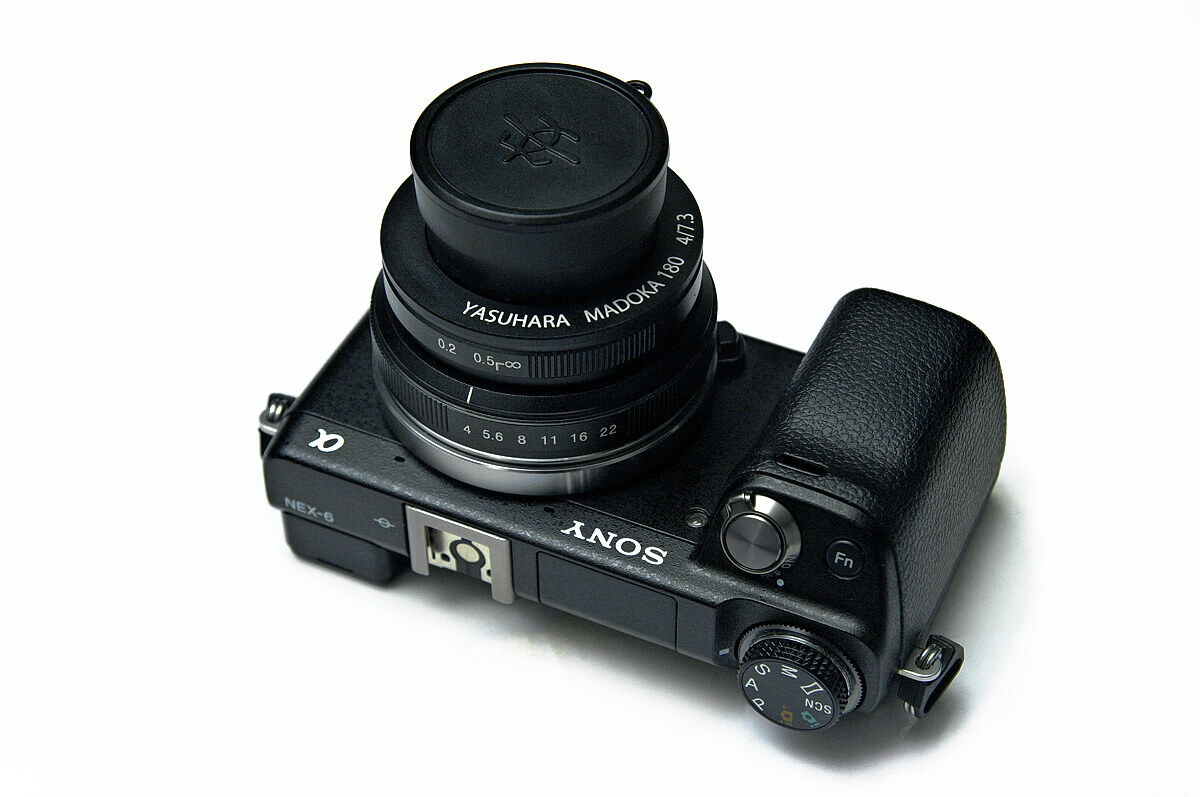 Yasuhara MADOKA Fisheye lens, on SONY NEX-6。